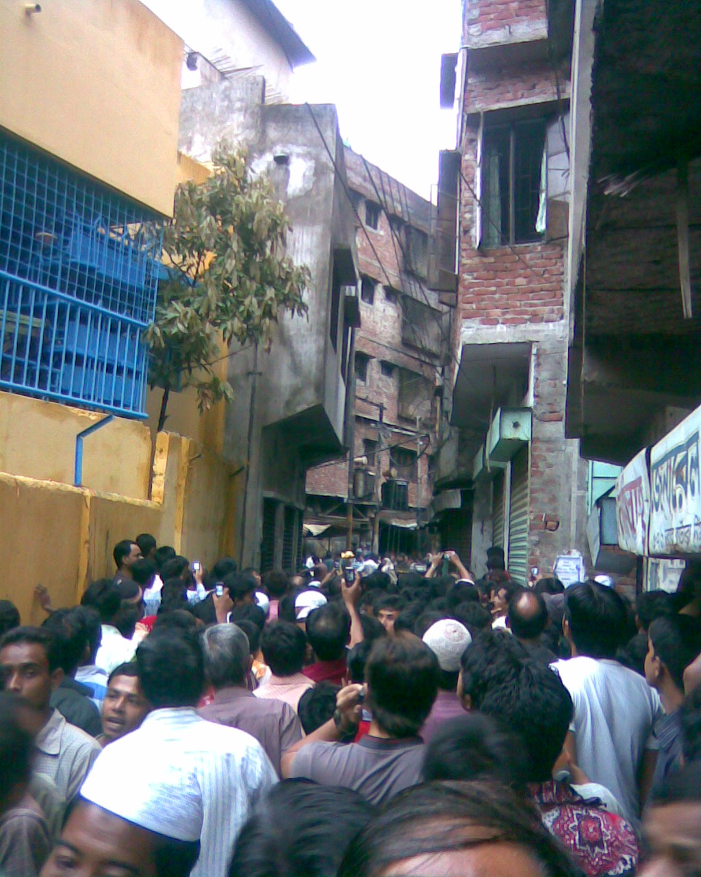 The building and those two electric transformers after the 2010 Dhaka fire. Picture taken by the photographer's (Nokia 3110c) mobile phone. The day after the tragedy happned, the photographer could not cross the parameter of armed forces and not even go beyond the curious crowd.